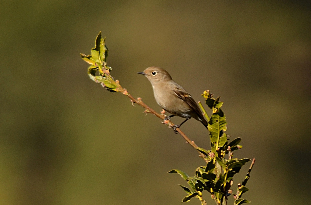 Blue-fronted Redstart female in Pangot, Uttarkhand, India